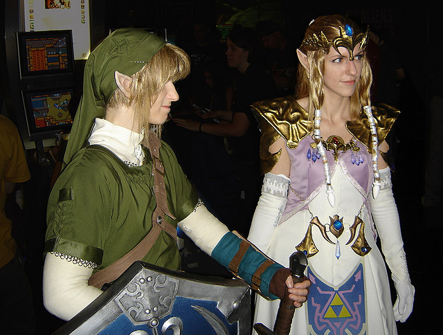 Link and Zelda (from The Legend of Zelda) cosplay at Penny Arcade Expo (August 27, 2006).